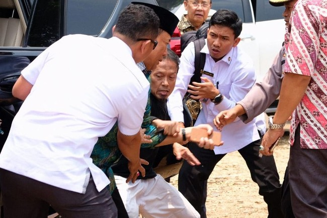 Wiranto (wearing a peci) being stabbed during an attack in October 2019